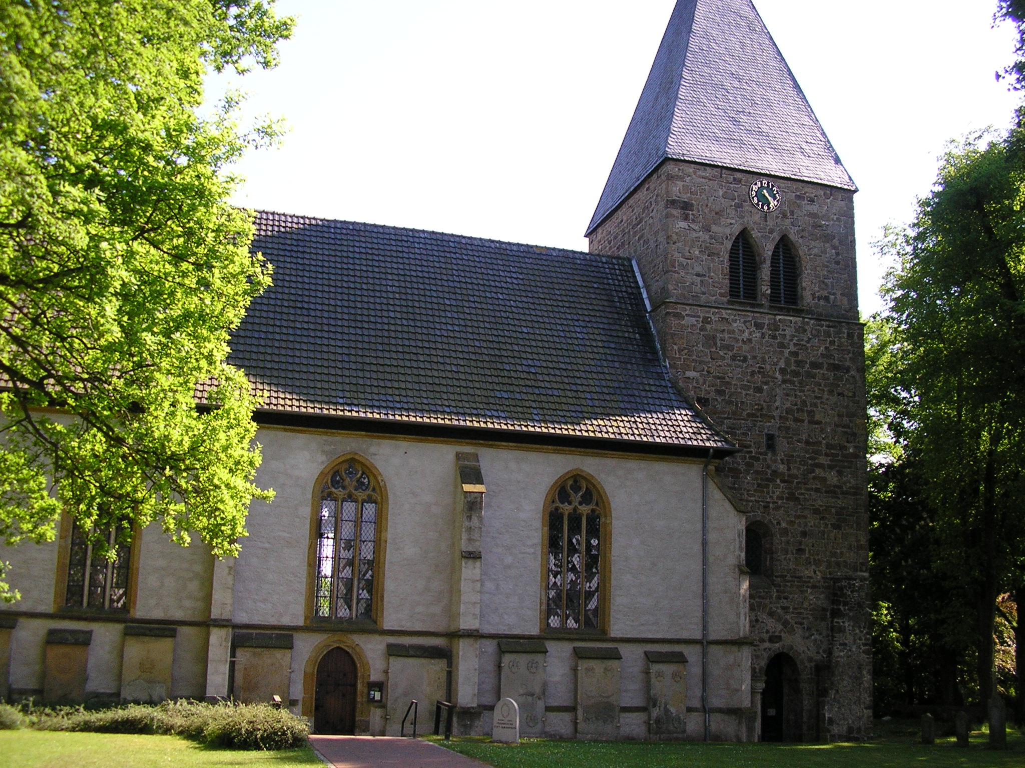 Church in town of Kirchlengern, District of Herford, North Rhine-Westphalia, Germany. This is a photograph of an architectural monument.